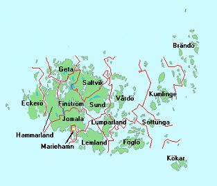 a map of Åland